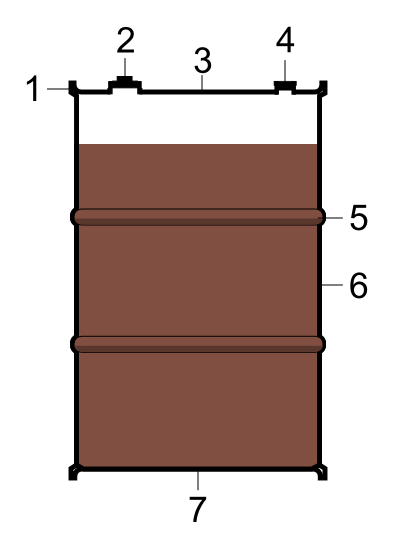 Drum (1.Rim 2.Main hole 3.Top plate 4.Air hole 5.Reinforcement ring 6.Hull 7. Bottom plate)